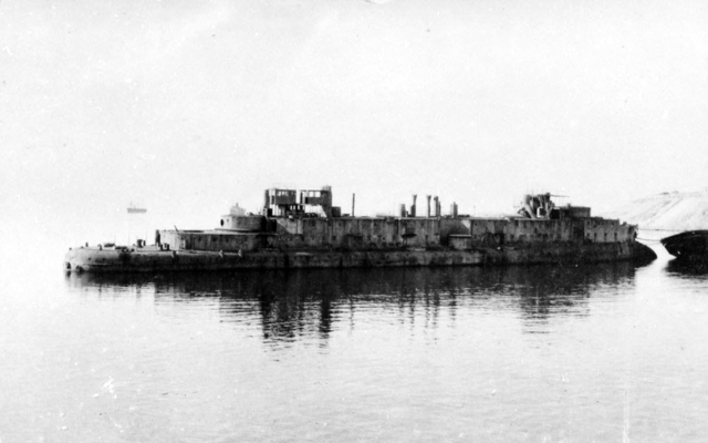 Gallipoli, Turkey. 1915. The hulk of the French Navy battleship Masséna off V Beach in the Cape Helles area. The ship had been towed from Toulon and scuttled next to the River Clyde, on 9 November 1915, to form part of an artificial harbour.